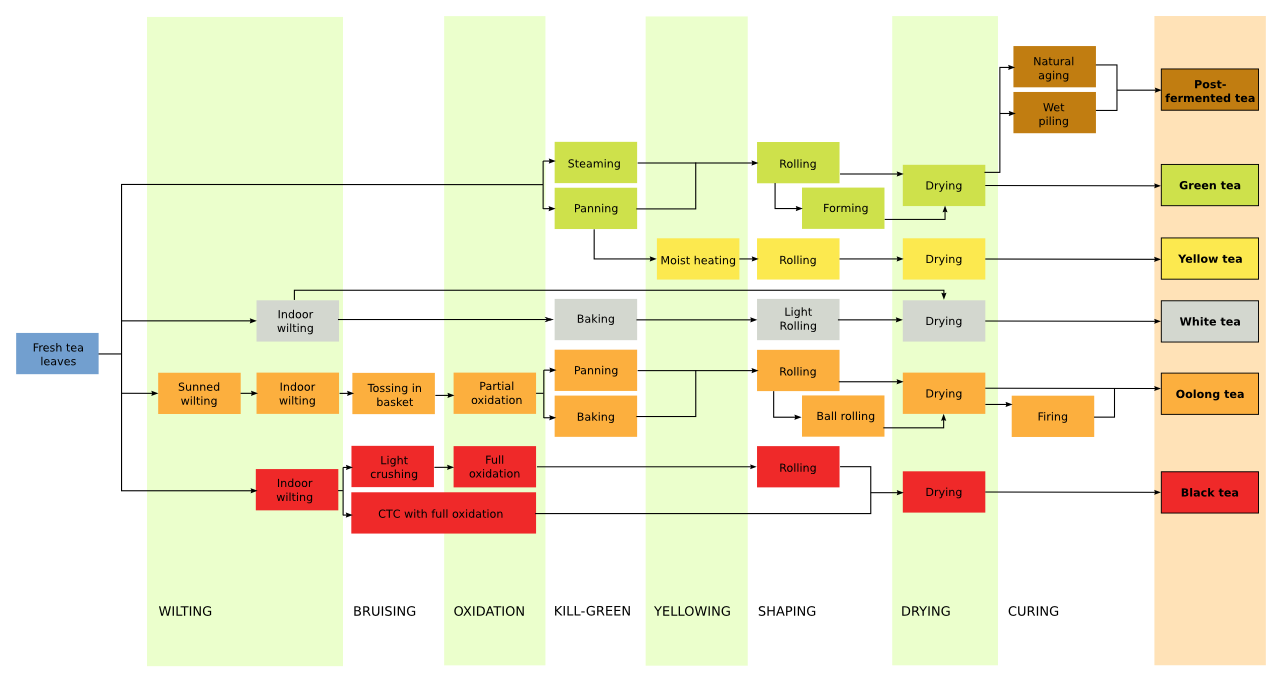 Processing for Green, White, Oolong, Black, and Post-fermentation teas